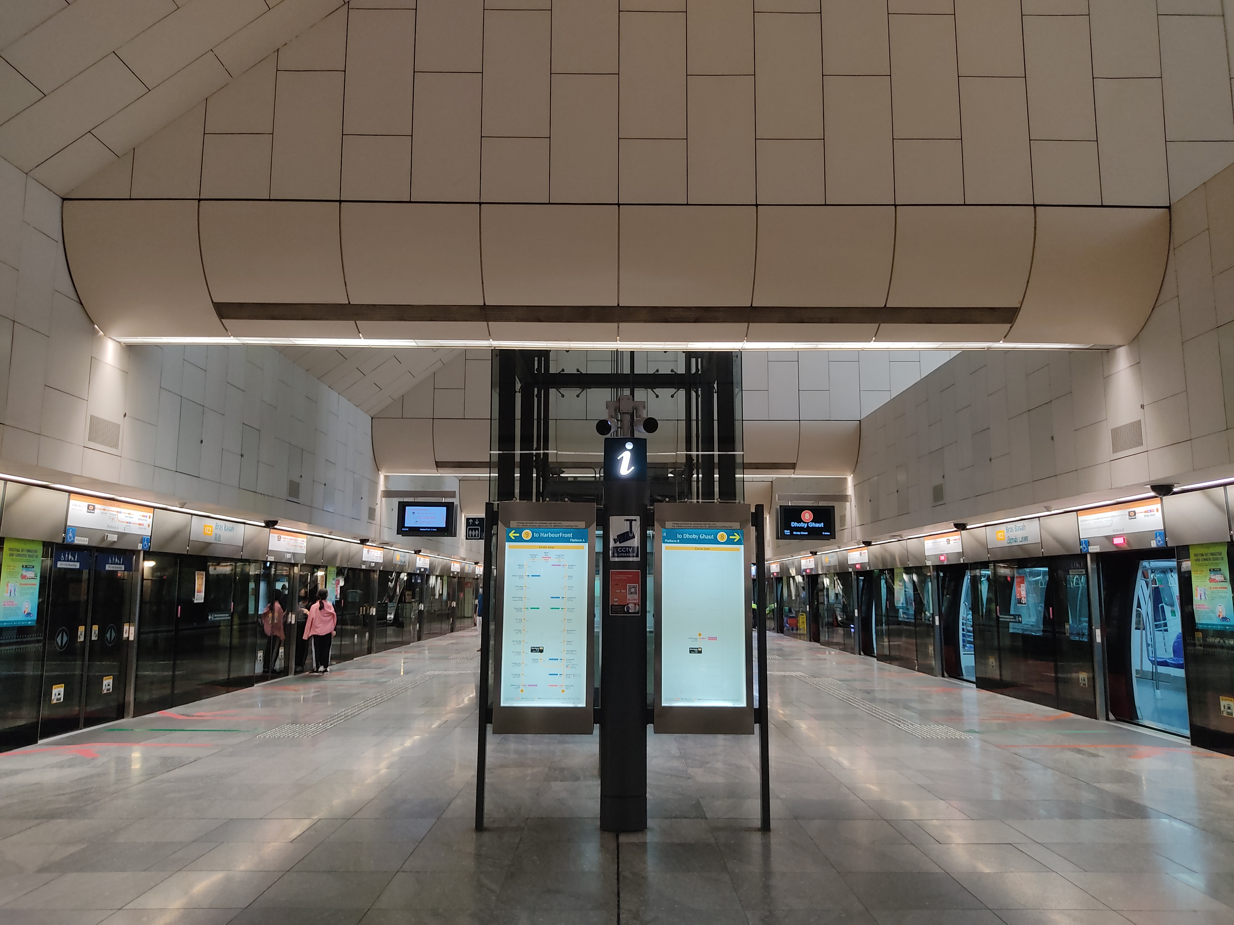 CCL platforms of Bras Basah